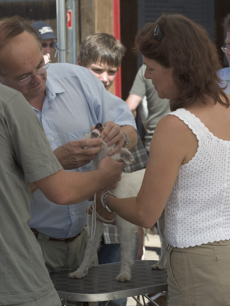 A judge is looking at the teeth of a dog during a dog-show.